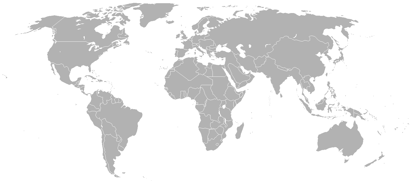 Map of the world in 1912